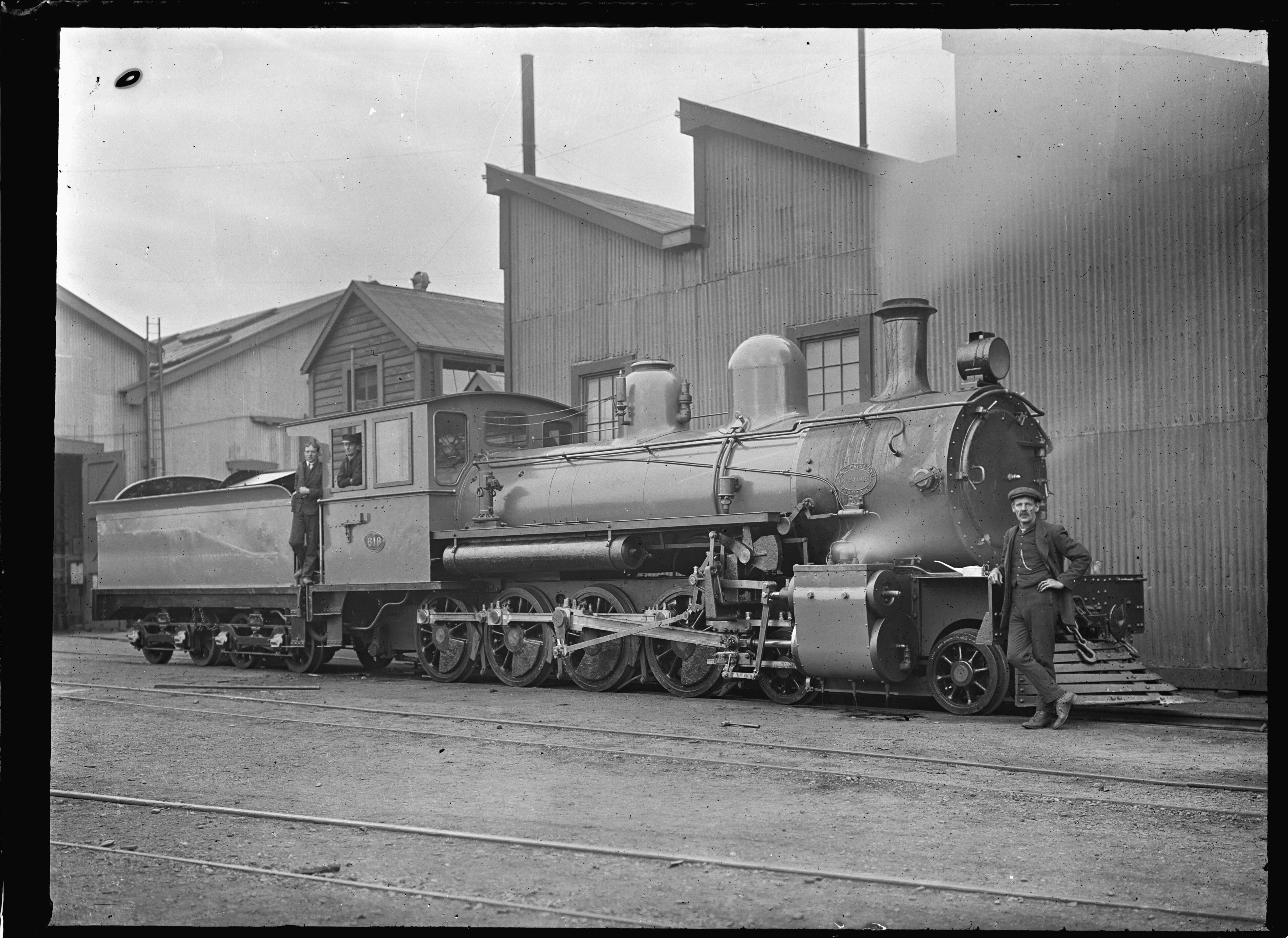 Bb class 4-8-0 locomotive, New Zealand Railways no 619, photographed about the time of introduction to service, March 1915. Photographed at the Petone Railway Workshops by A P Godber.